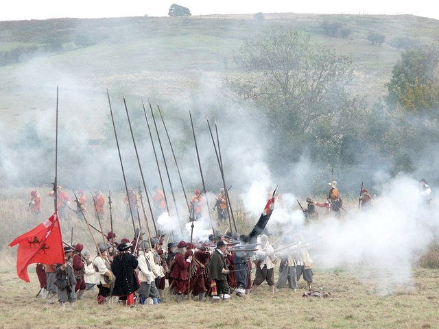 Re-enactment - The Siege of Bolingbroke Castle Musketeers and pikemen group together.